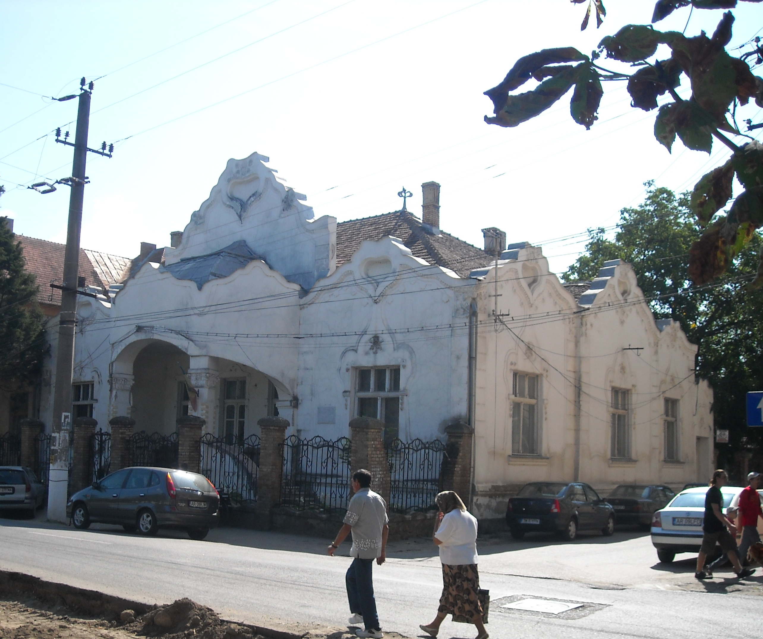 villa in Lipova (Lippa), Romania, it served as the local office of the ASTRA association between 1901 and 1918